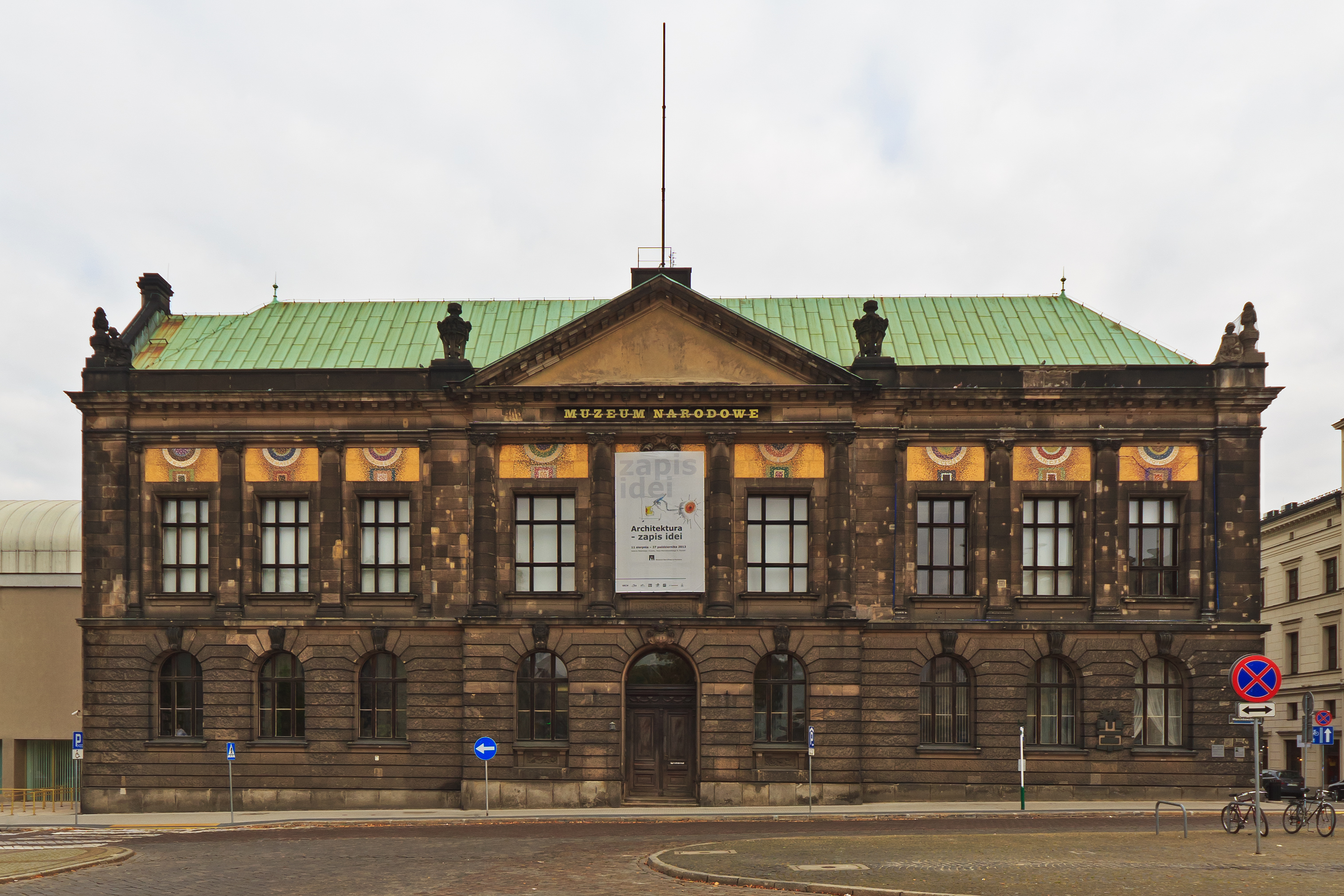 Old building of the National Museum in Poznań, Greater Poland